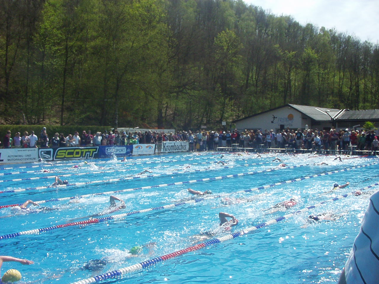 This is a photo of the 22nd "Triathlon-Siegerland-Cup" in Buschhütten, which is a district of Kreuztal, Germany.